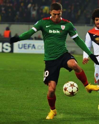 Óscar de Marcos